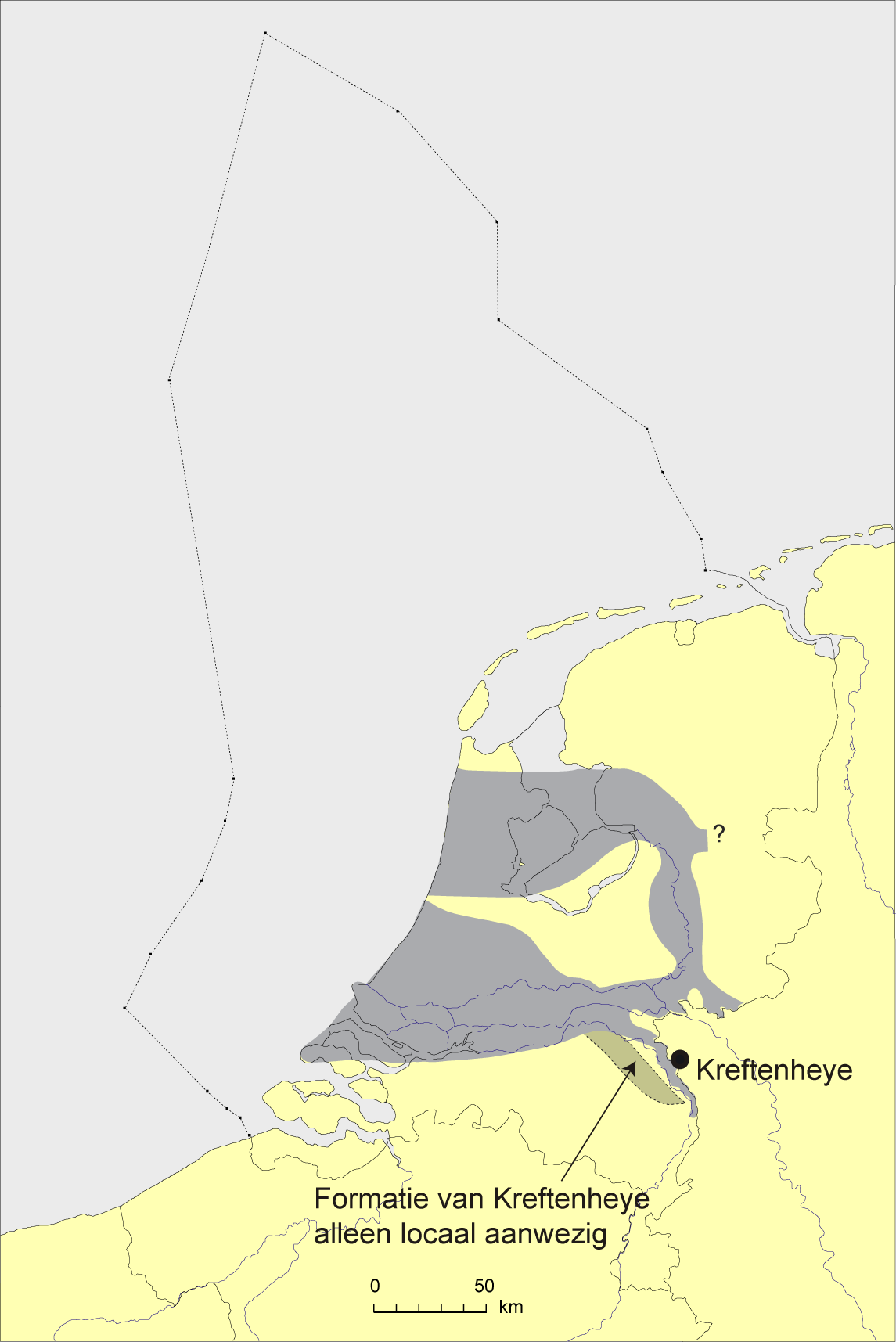 Distribution of the Pleistocene lithostratigraphic unit "Kreftenheye Formatie" in the Netherlands